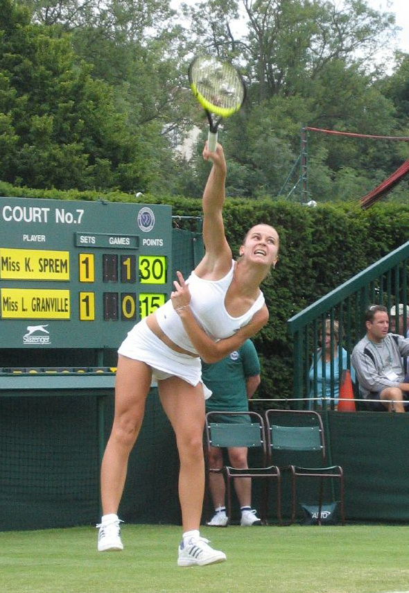 Karolina Sprem at Wimbledon 2004, playing ladies' singles against Laura Granville at court 7